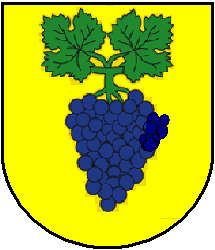 Coat of arms of Lutzenberg, Canton of Appenzell Ausserrhoden, Switzerland